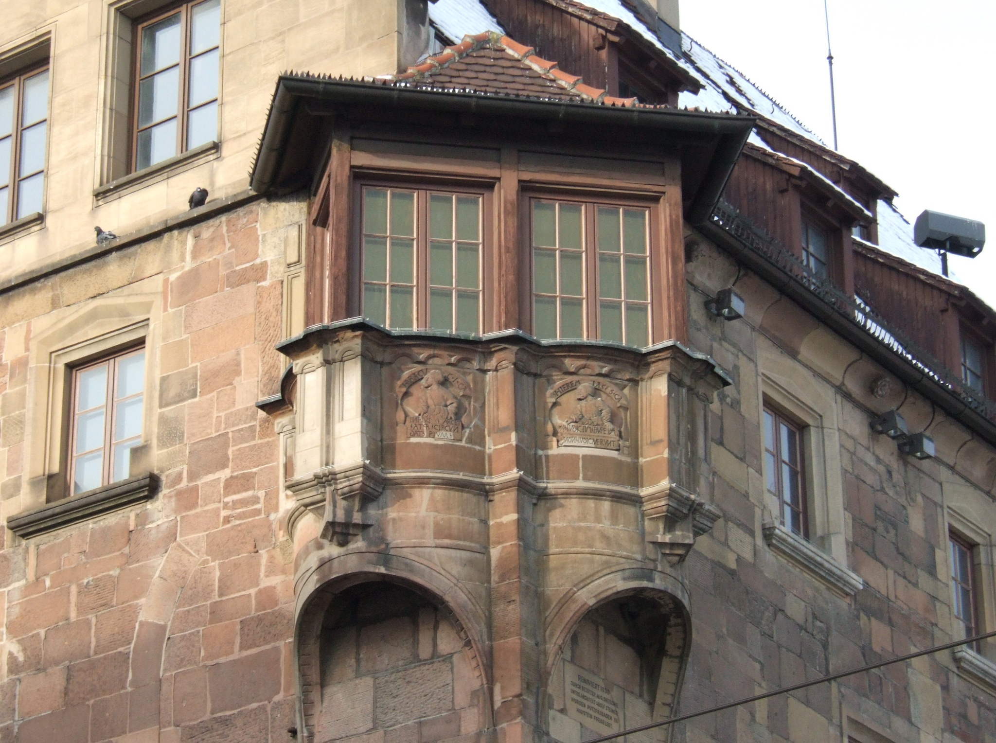 Bay of the "Käthchenhaus" of Heilbronn - Germany